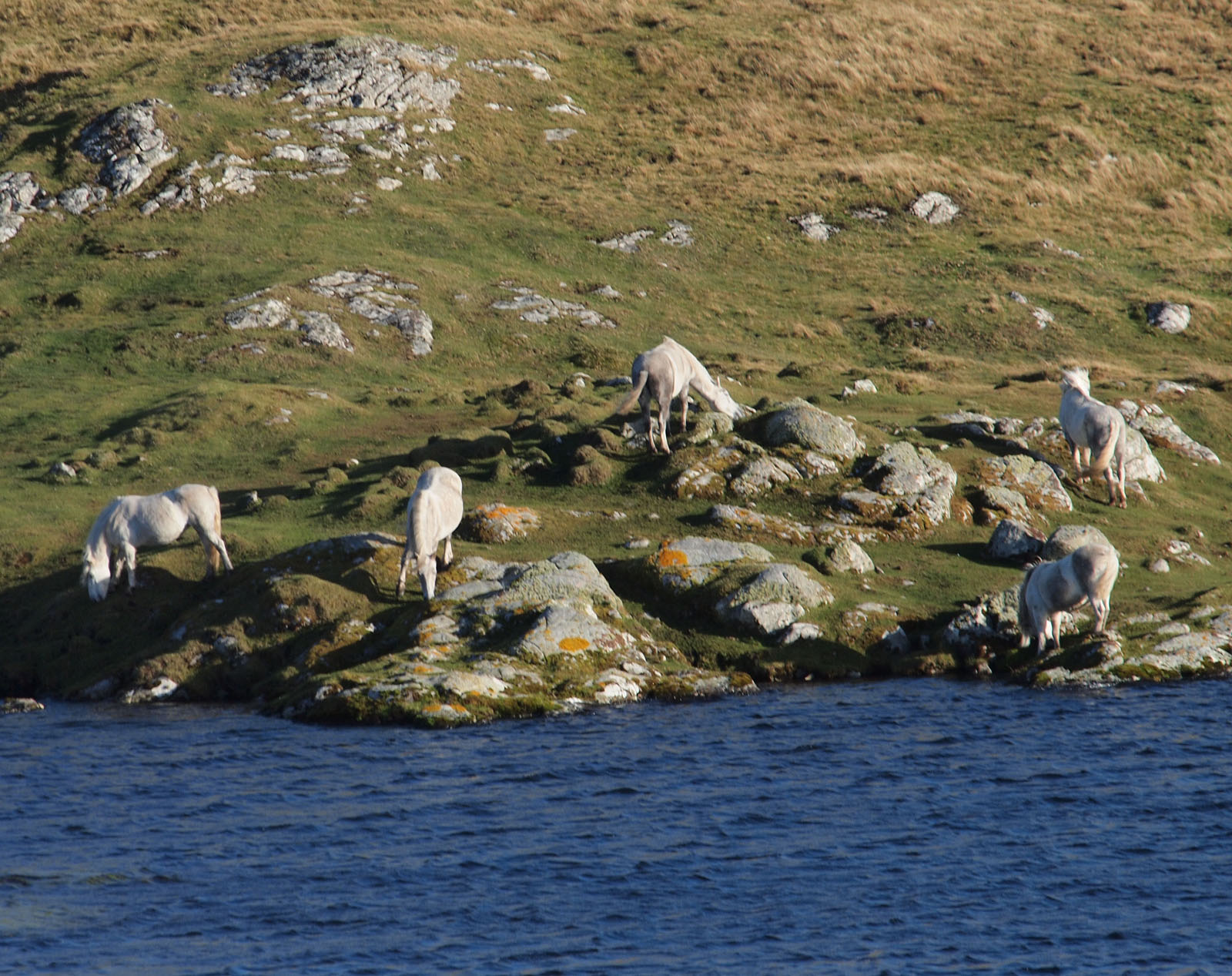 Eriskay ponies by Loch Cracabhaig